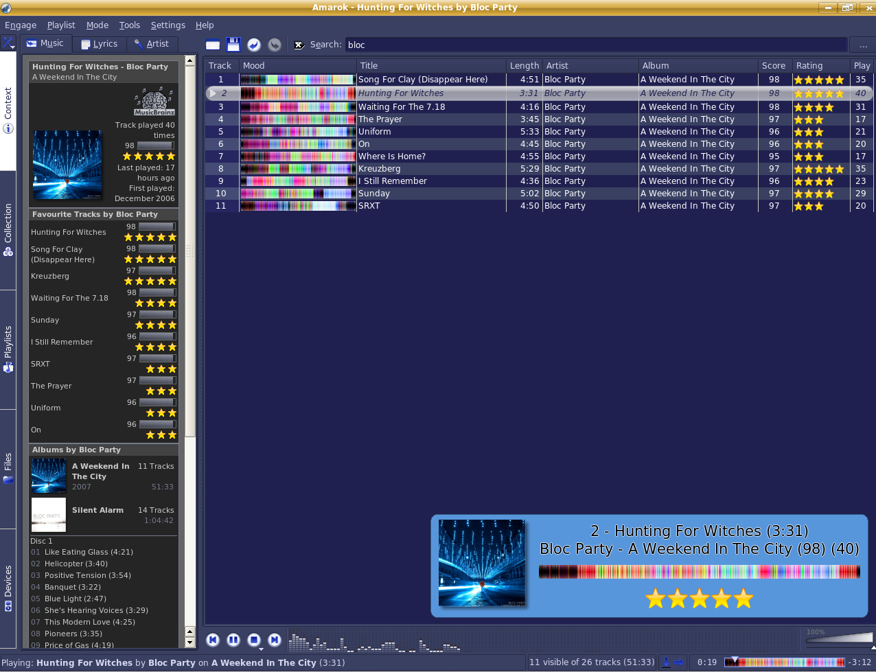 Amarok 1.4.5 with moodbar feature activated